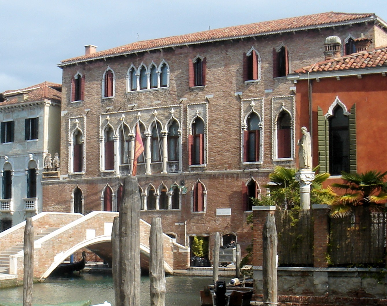 Venice, Italy: Marcello Palace (XV century) near Church of Tolentini.